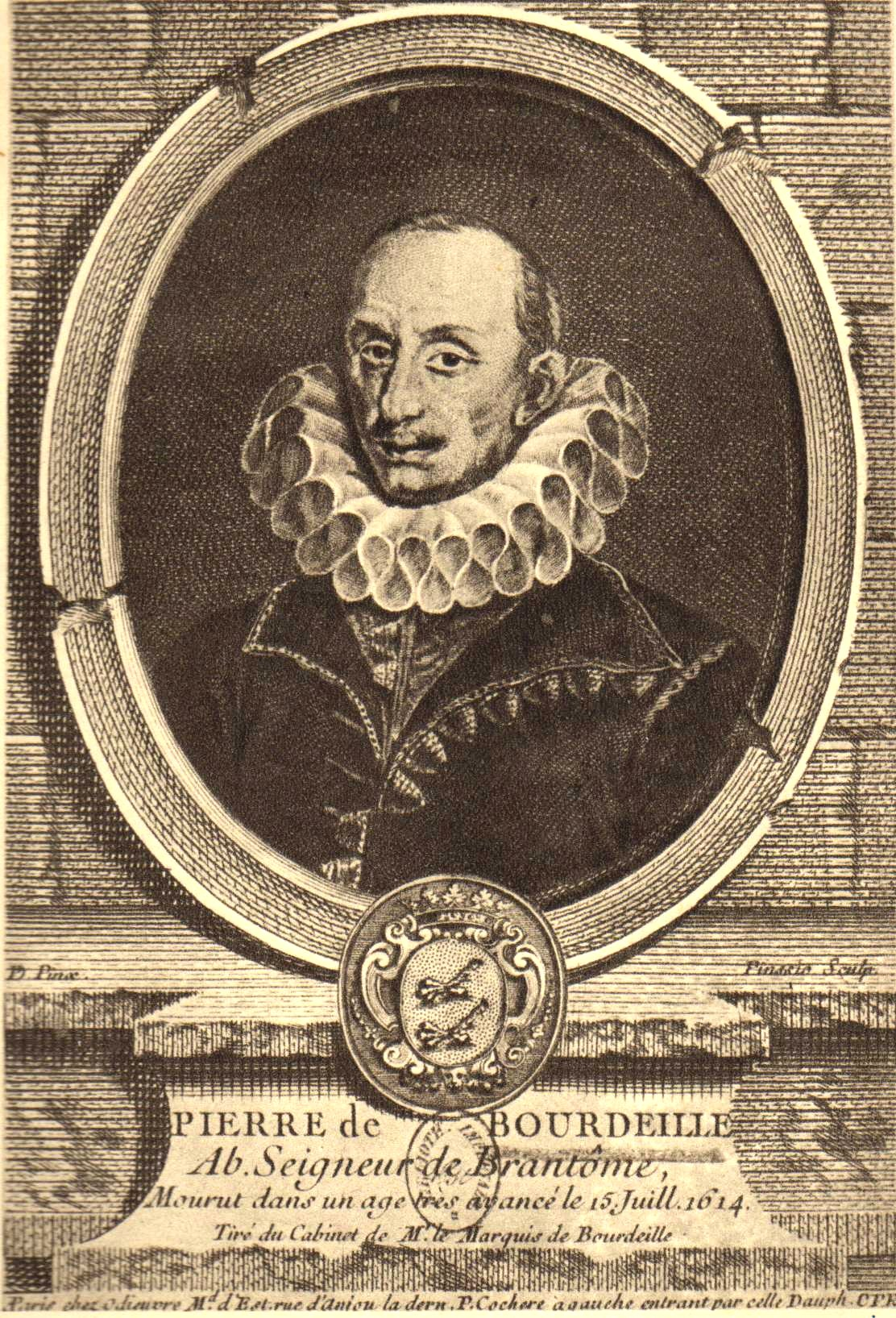 portrait of Pierre de Bourdeille, abbé de Brantôme